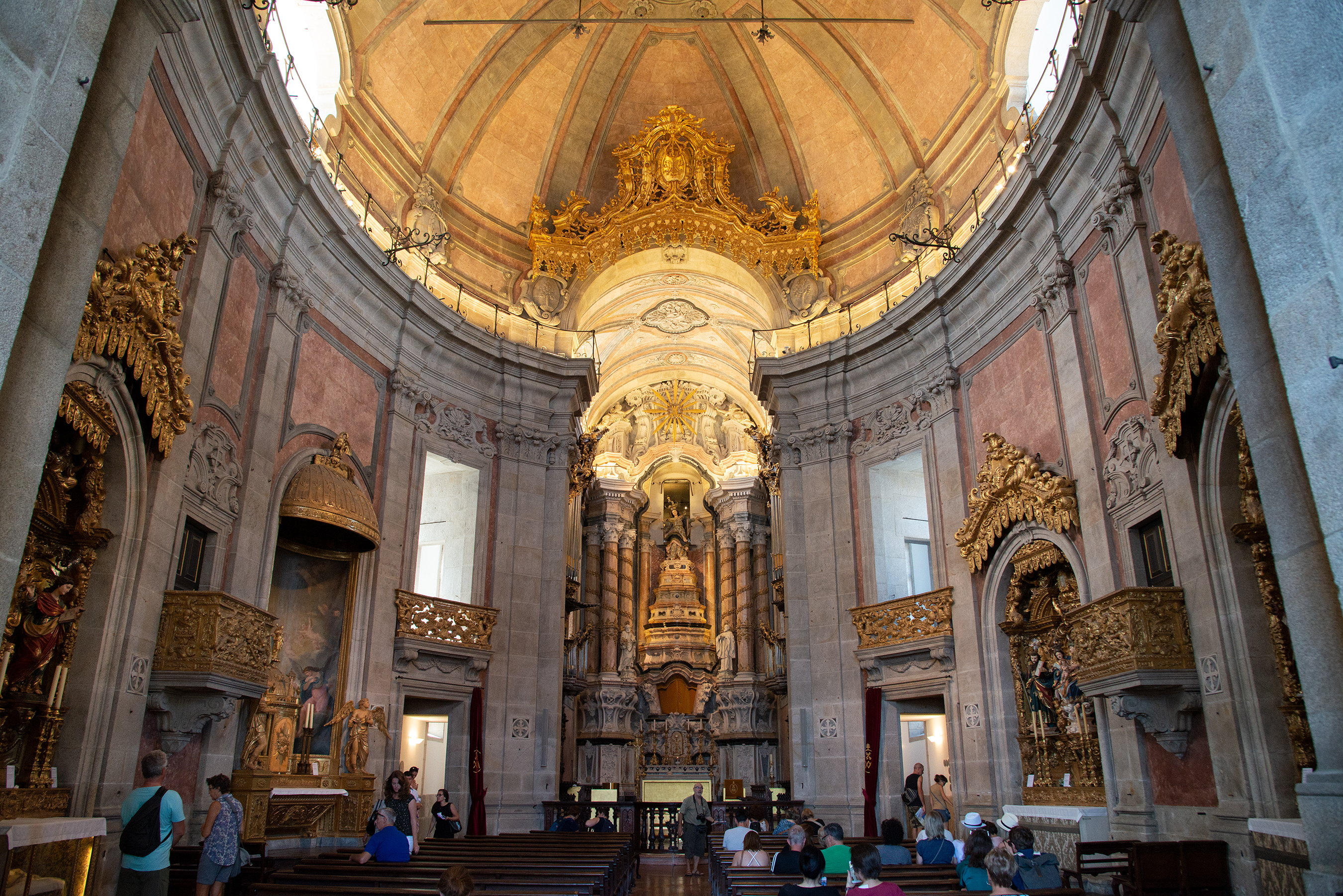 Clérigos Church (Igreja dos Clérigos) Porto, horizontal